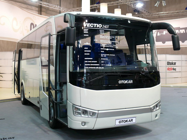 Otokar Vectio - 9m bus at Busworld 2007.